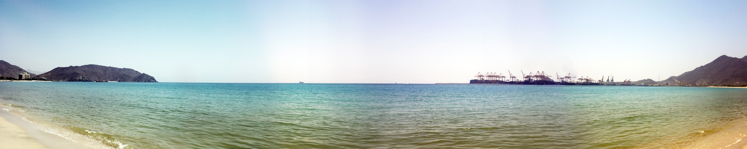 Khor fokkan beach with Port . Panorama view